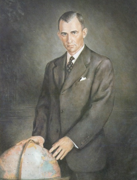 Frank Pace, Jr., Truman administration Secretary of the Army